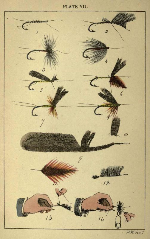 Plate VII From Rod Fishing, Henry Wade (London 1860)